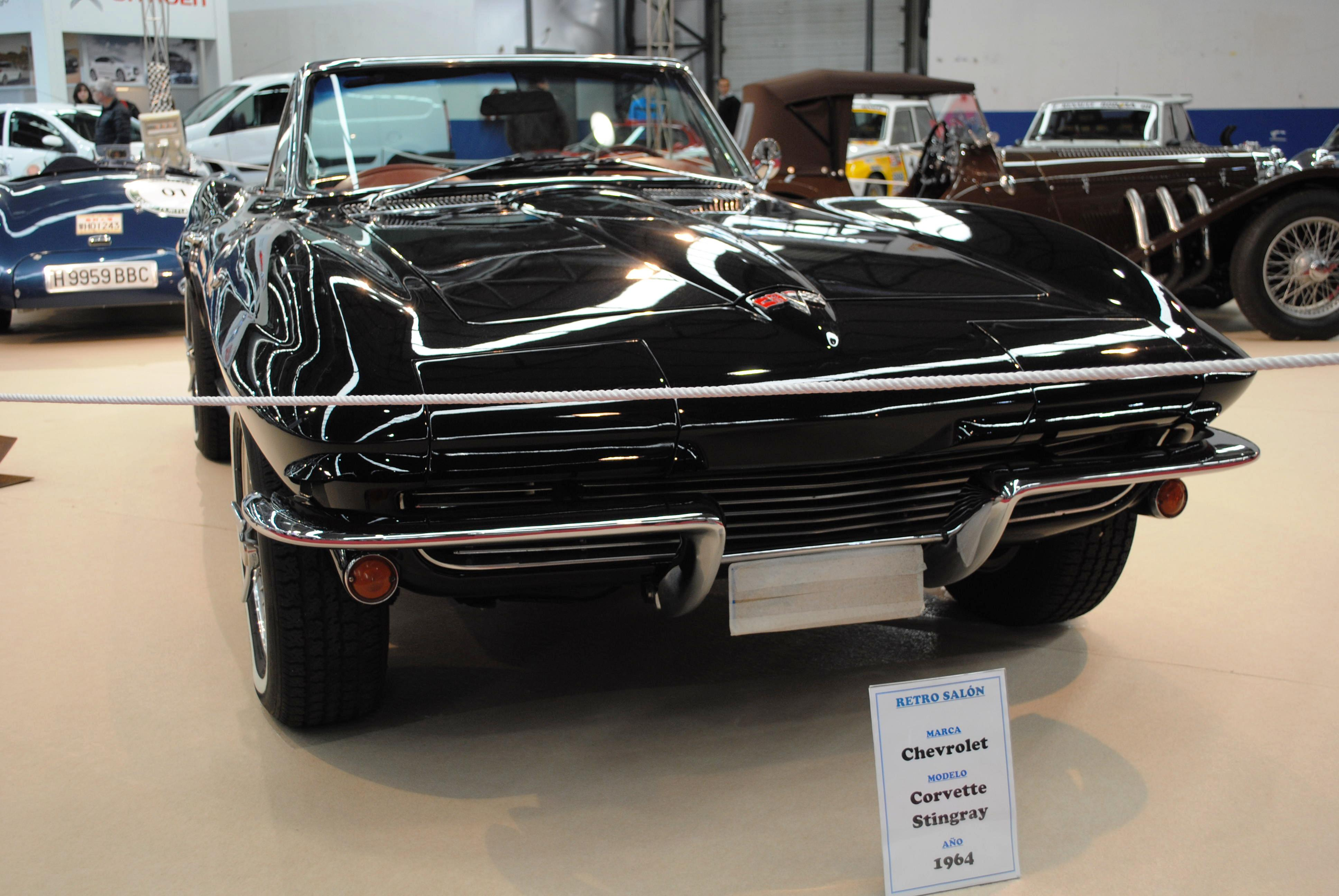 Chevrolet Corvette Stingray, 1964, IFEVI, 2014.JPG